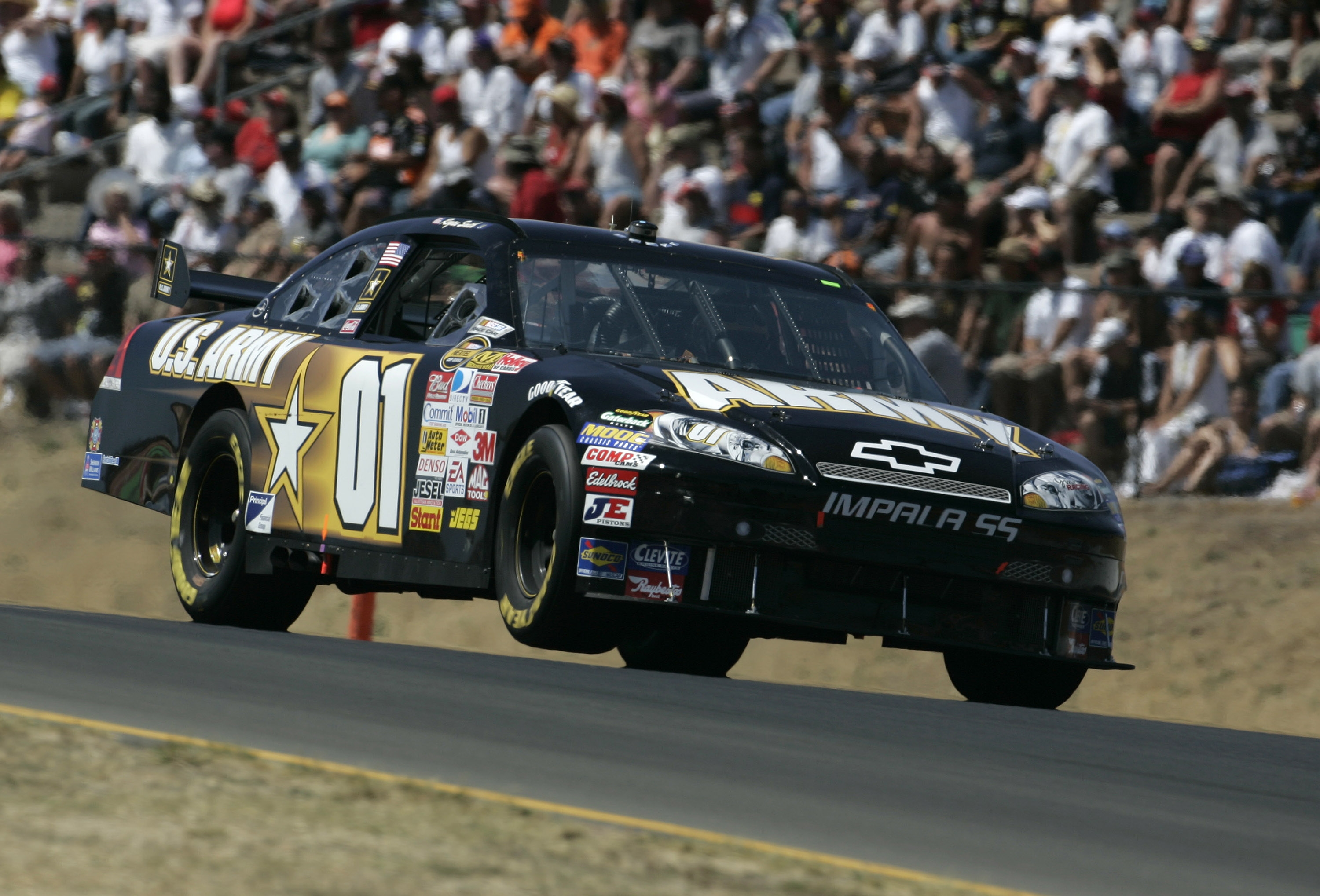 NASCAR driver Regan Smith's #01 race car. "Army Driver Shows Improvement Despite Disappointing Finish"; Photo by U.S. Army Racing; June 25, 2007; Regan Smith finished 30th in his maiden Nextel Cup road race June 24 at Infineon Raceway in Sonoma, Calif. [1]